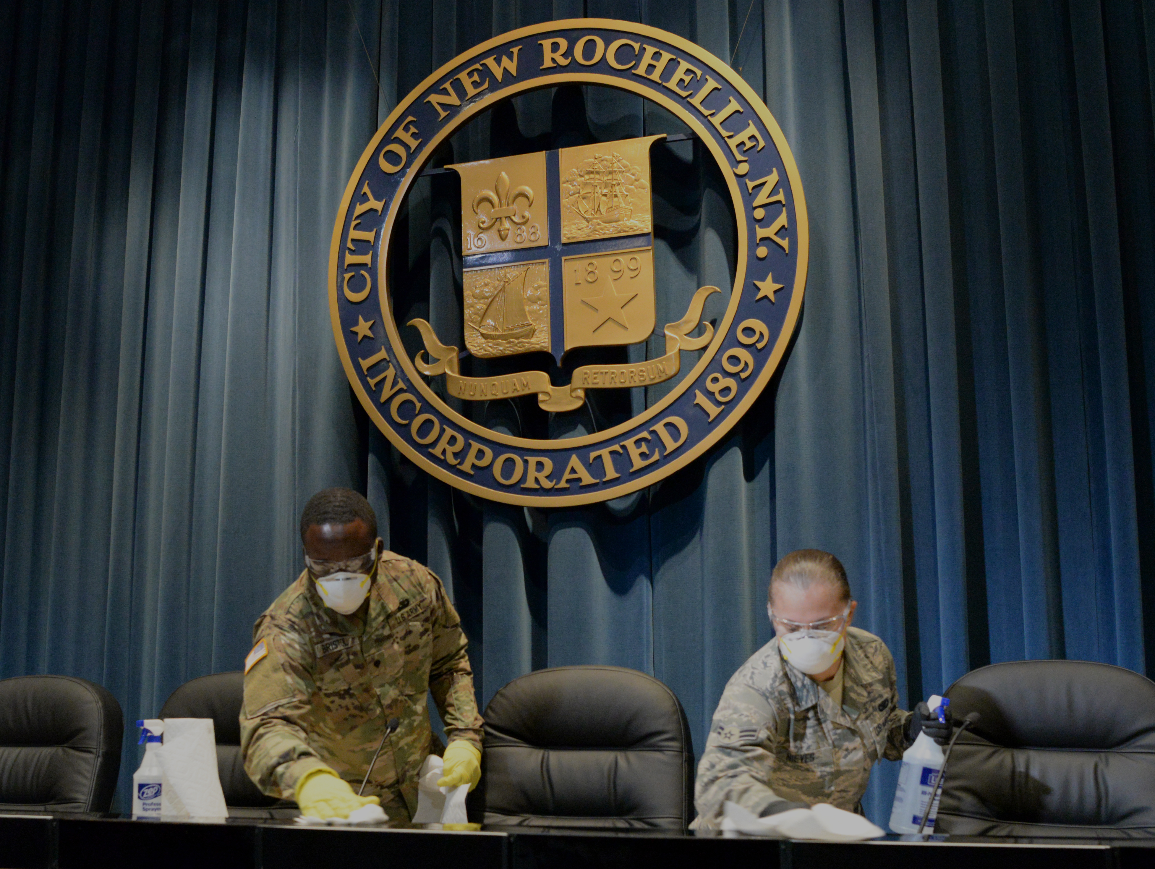 From left, Spc. Bristol of the New York Army National Guard 396th Battalion and Airman 1st Class Nieves with the New York Air National Guard’s 106th Rescue Wing, help clean City Hall in New Rochelle, New York, March 14, 2020. New York Army and Air National Guard members are supporting the multi-agency response to COVID-19. (U.S. Air National Guard photo by Senior Airman Sean Madden)